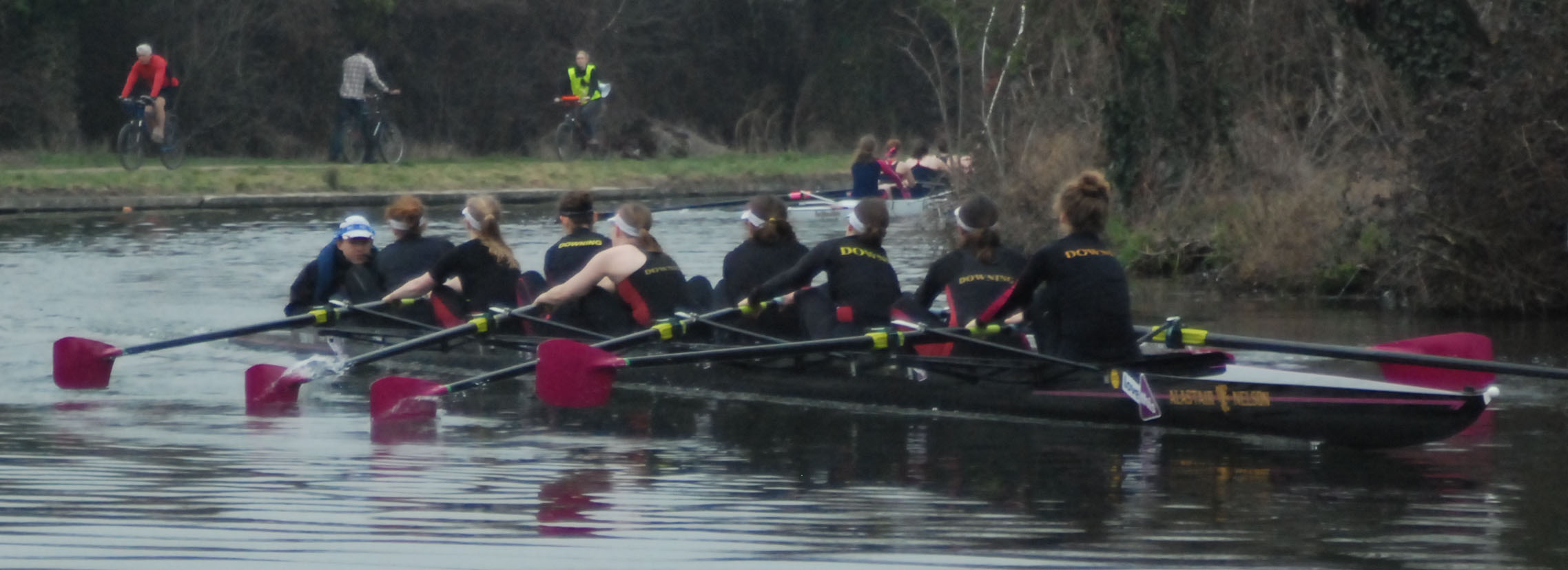 Downing W1 rowing over as head well clear of Emma, last day of Lent bumps 2012. Sorry about bow but she did it every stroke.